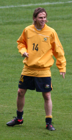 Brett Holman after a training session at ANZ Stadium the day before a World Cup Qualifying game against Uzbekistan.